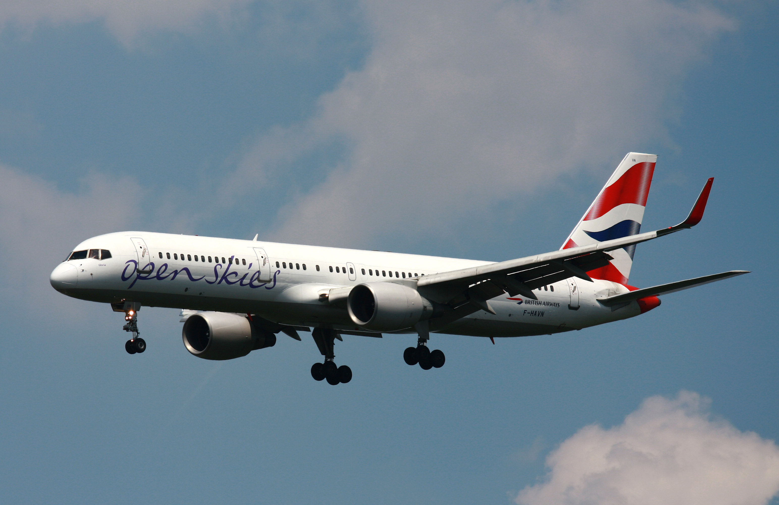 A Boeing 757-200 of OpenSkies landing at Frankfurt Airport